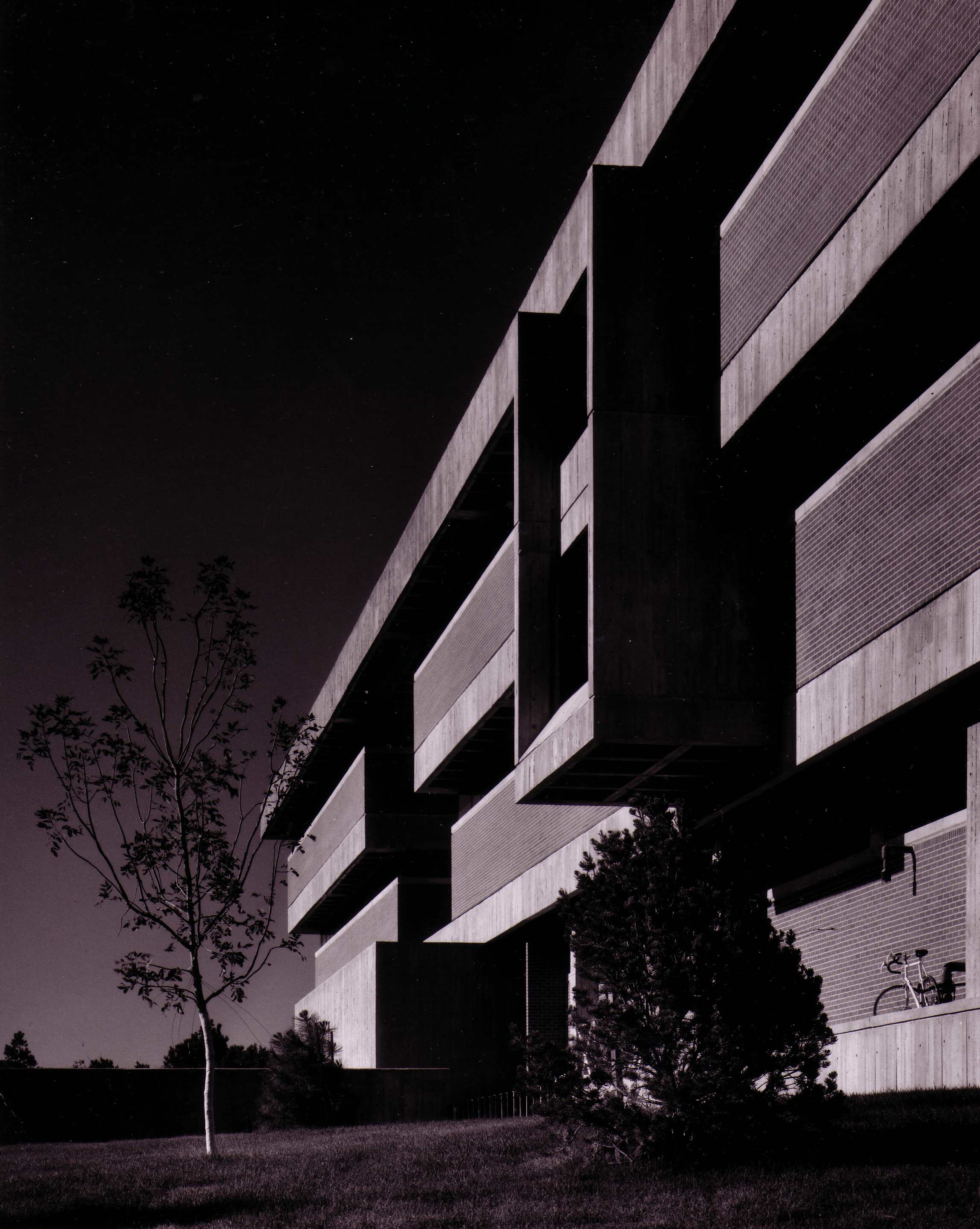 Heritage High School, Littleton, Colorado, designed by Eugene Sternburg